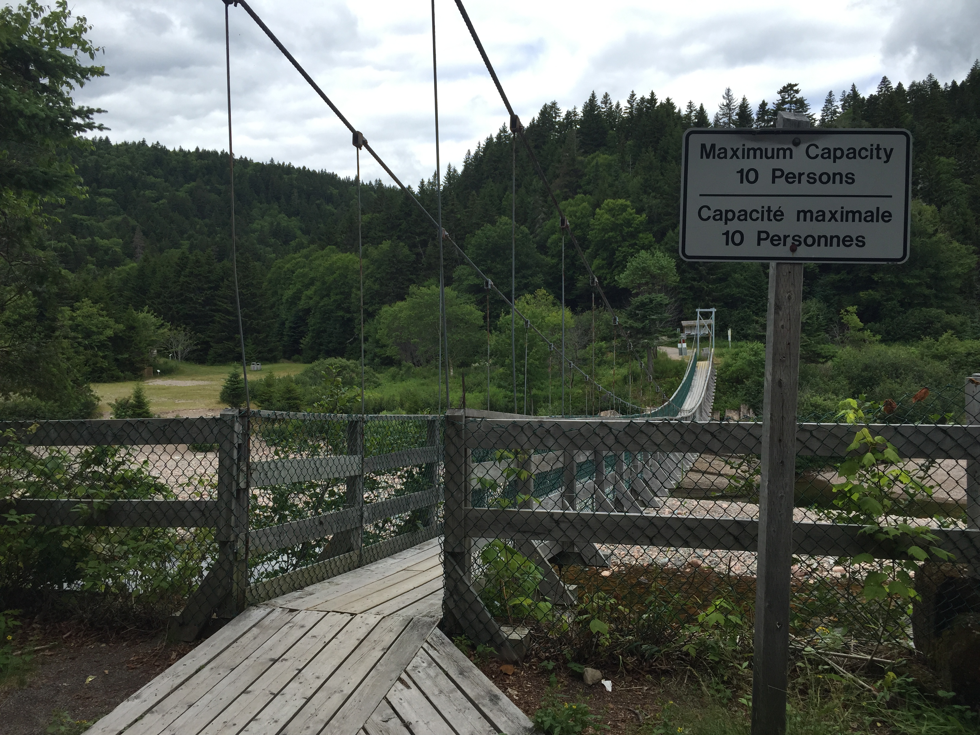 An 84-metre suspension footbridge near St Martins, New Brunswick.